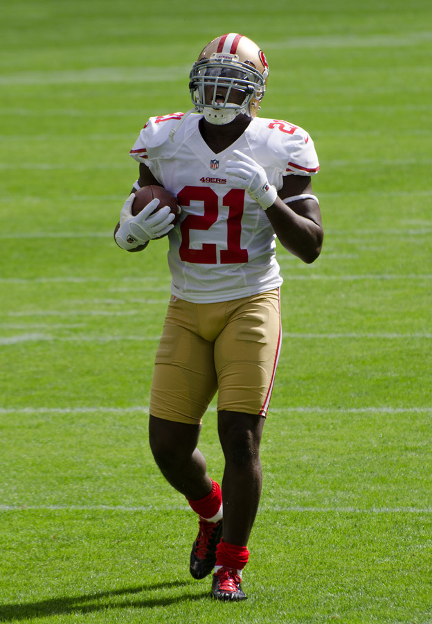 San Francisco 49ers vs. Green Bay Packers at Lambeau Field on September 9, 2012. Photo by Mike Morbeck.